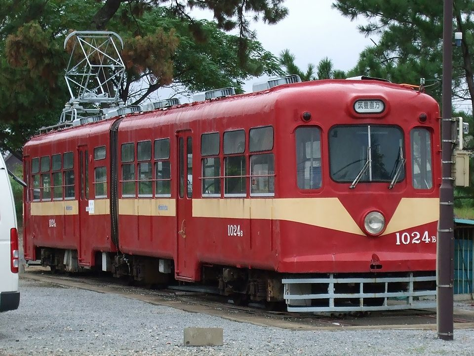 Nishi Nippon Railroad tram Type1000 No.1024AB Location:in Higashi-ku, Fukuoka, Fukuoka, Japan